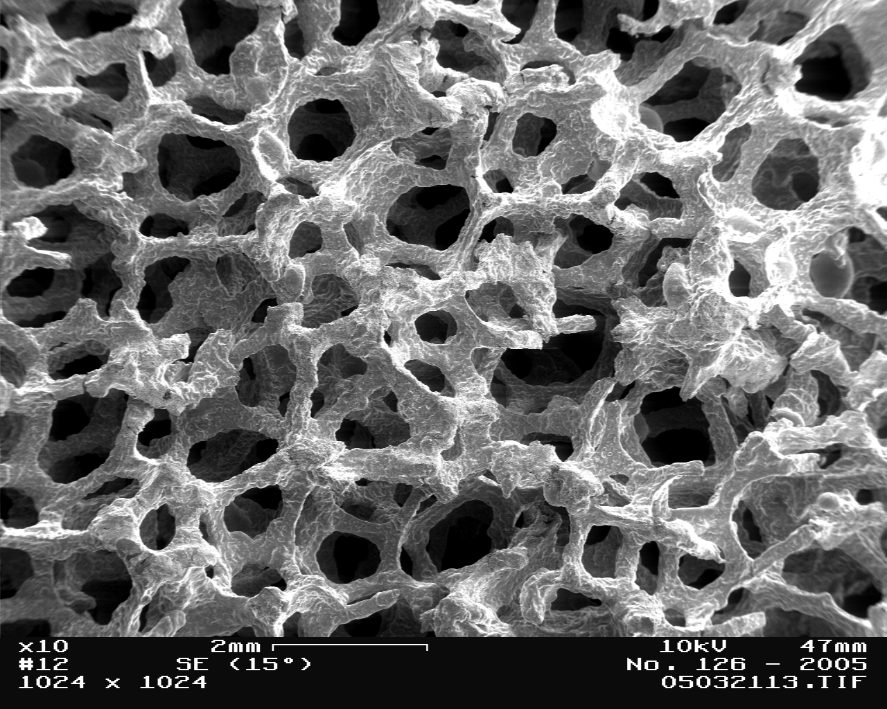 Metal Foam in Scanning Electron Microscope, magnification 10x